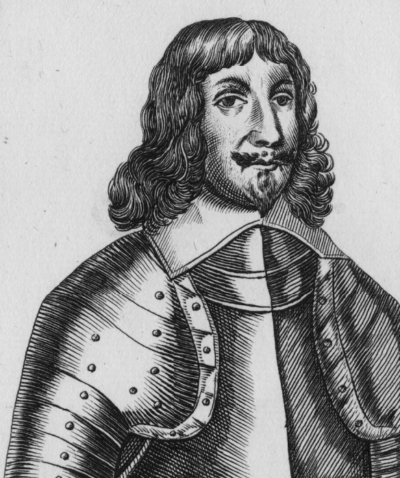 Line engraving of Sir John Meldrum.